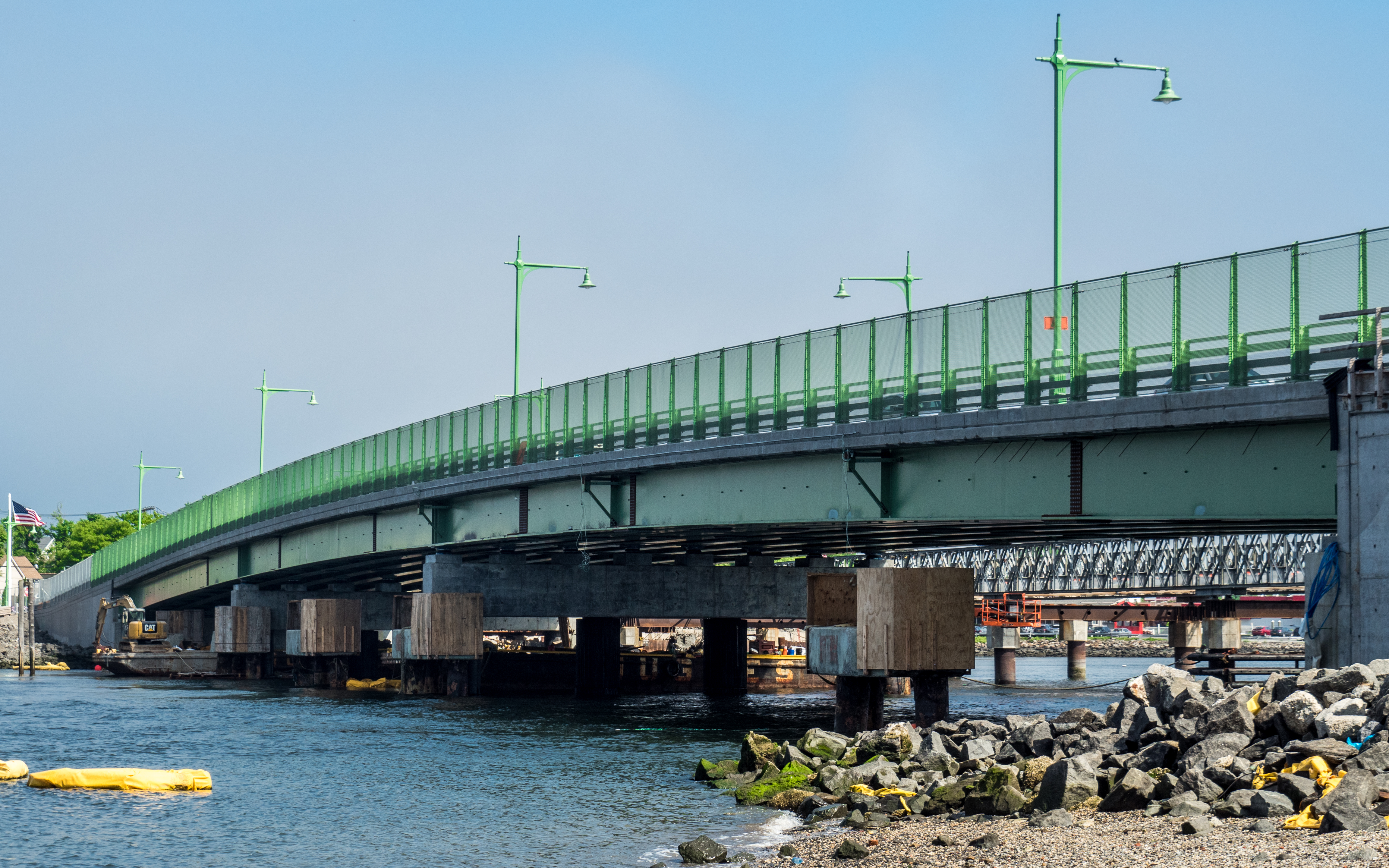 New City Island Bridge over Eastchester Bay, Rodman's Neck - City Island, Bronx, New York City